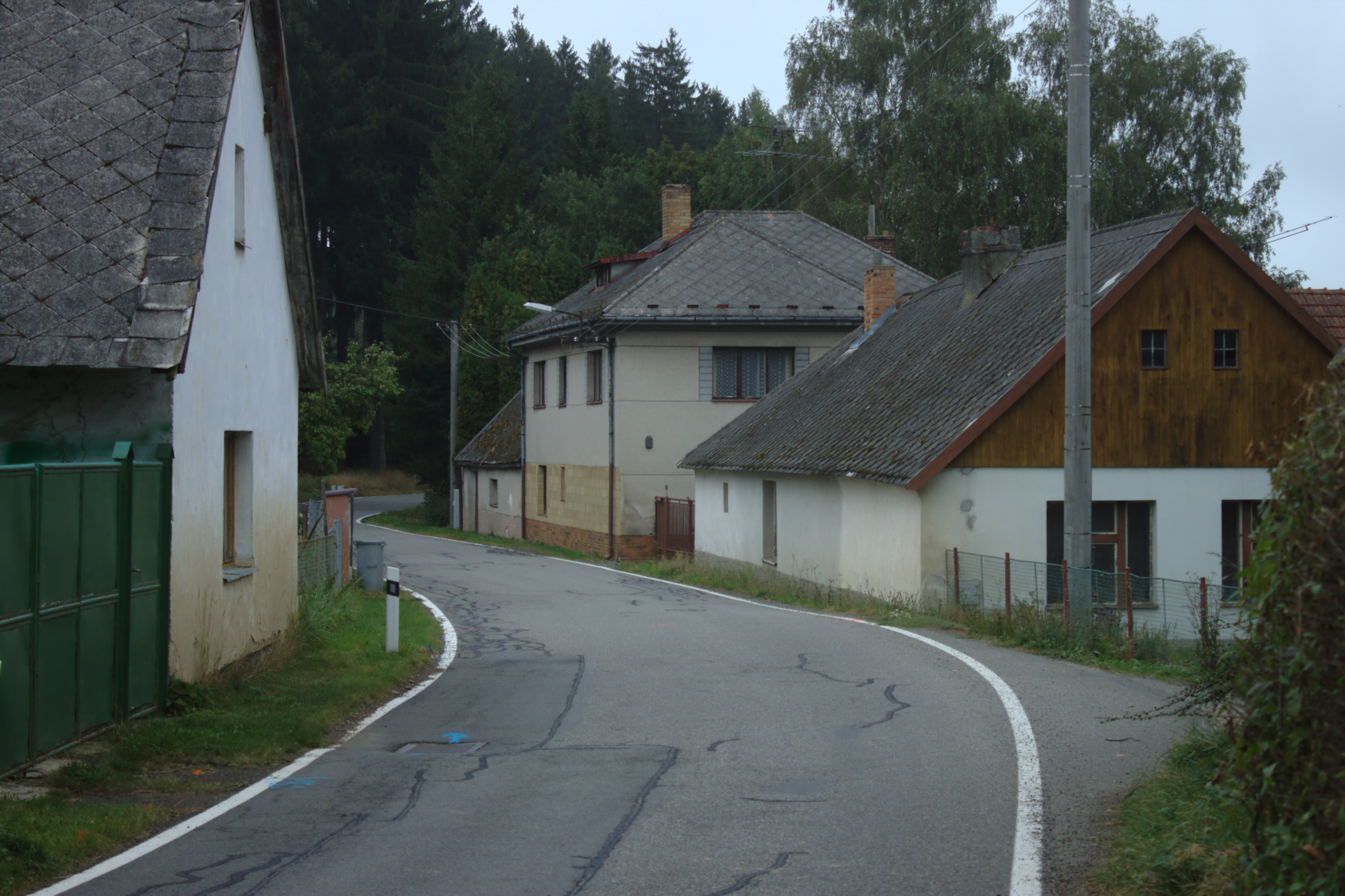 Buildings next to the main road in the village of Kopaniny, CZ